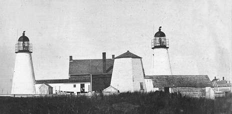 Chatham Massachusetts Lighthouse showing 1841 towers. USA. See talk page for discussion of date.